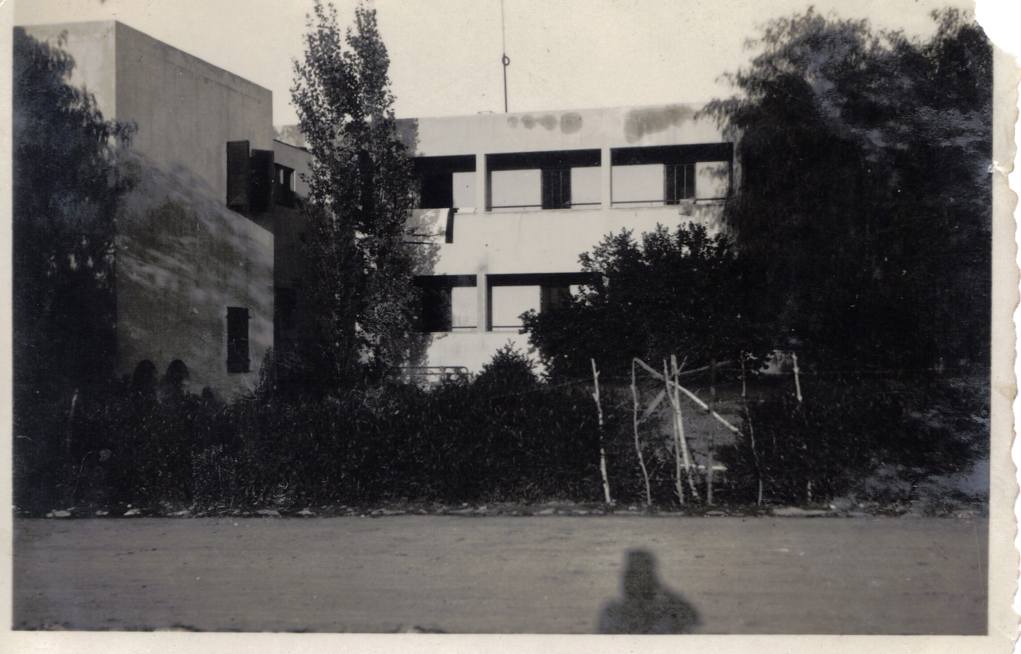 School, Education in Israel